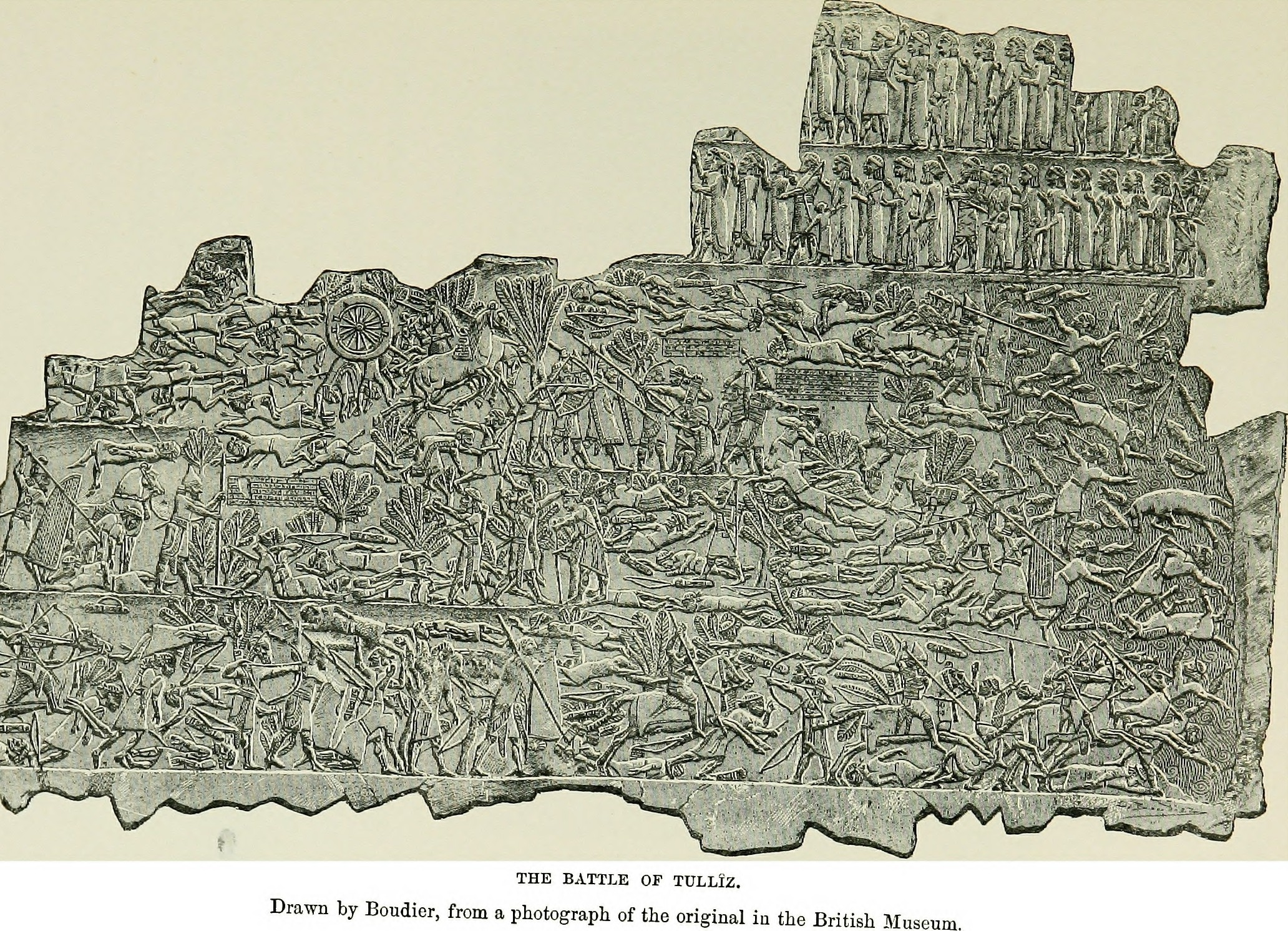 Title: History of Egypt, Chaldea, Syria, Babylonia and Assyria Year: 1903 (1900s) Authors: Maspero, G. (Gaston), 1846-1916 Sayce, A. H. (Archibald Henry), 1845-1933 McClure, M. L., d. 1918 Subjects: Civilization, Ancient History, Ancient Publisher: London : Grolier Society Text Appearing Before Image: ITUKI BREAKS HIS BOW WITH A BLOW OF HIS SWORD, AND GIVES HIMSELi UP TO THE EXECUTIONER. expecting reinforcements, he endeavoured to gain time bydespatching Ituni, one of his generals, with orders tonegotiate a truce. The Assyrian commander, suspecting aruse, would not listen to any proposals, but ordered the envoyto be decapitated on the spot: Ituni broke his bow with ablow of his sword, and stoically yielded his neck to the ^ Drawn by Boudier, from a photograph taken from the original in theBritish Museum. Text Appearing After Image: THE BATTLE OP TULLIZ 209 executioner. The issue of the battle was for a long timeundecided, but the victory finally remained with the heavyregiments of Assyria. The left wing of the Susians, driveninto the Ulai, perished by drowning, and the river waschoked with the corpses of men and horses, and the dSbrisof arms and broken chariots. The right wing took to flightunder cover of a wood, and the survivors tried to reach the 1^^ ■^T-^ ^